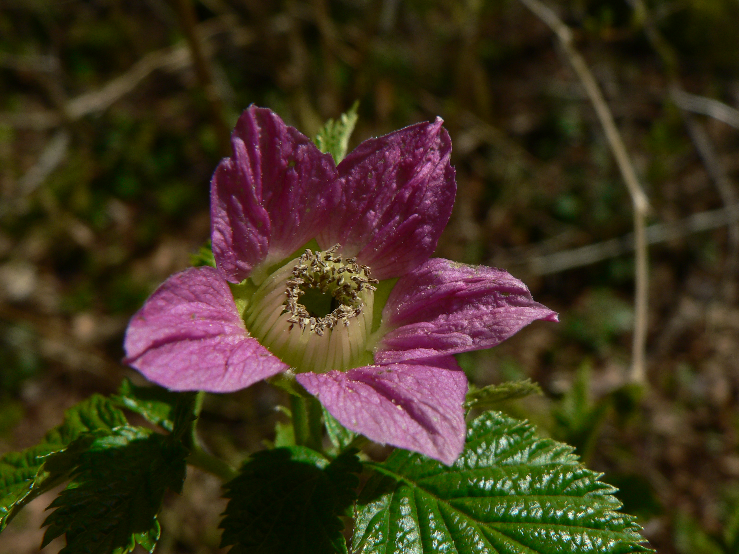 Salmonberry